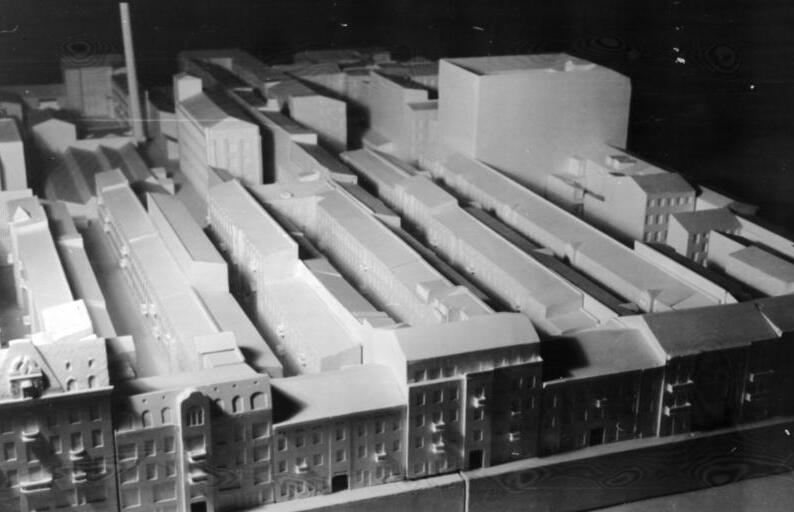 Model of actual city building in streets Piotrkowska, Traugutta, Sienkiewicza and Narutowicza's quarter viewed from west to east.